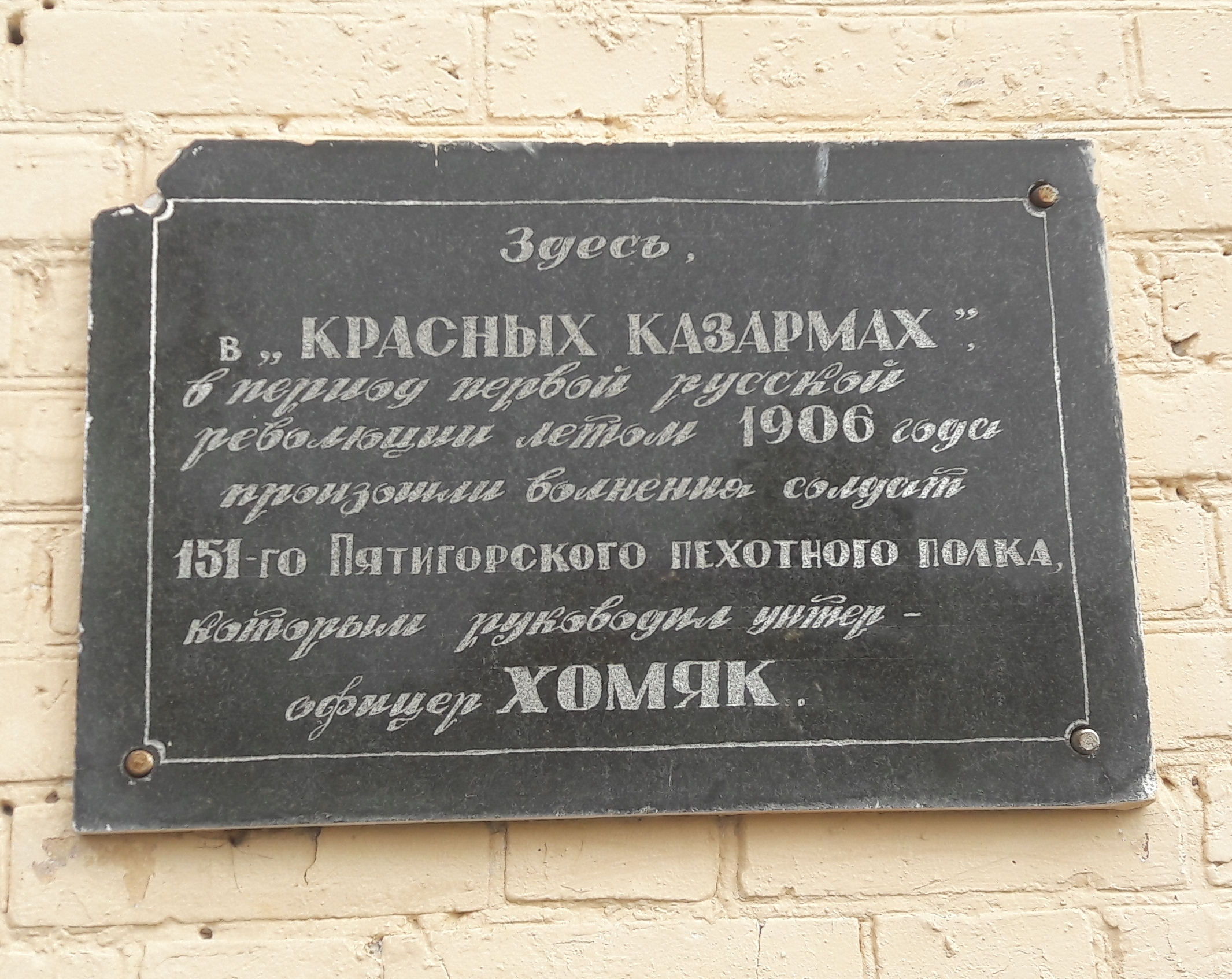 Soviet era memorial plaque in Biaroza, Belarus, commemorating events of the Revolution of 1905 in the Russian garrison stationed there